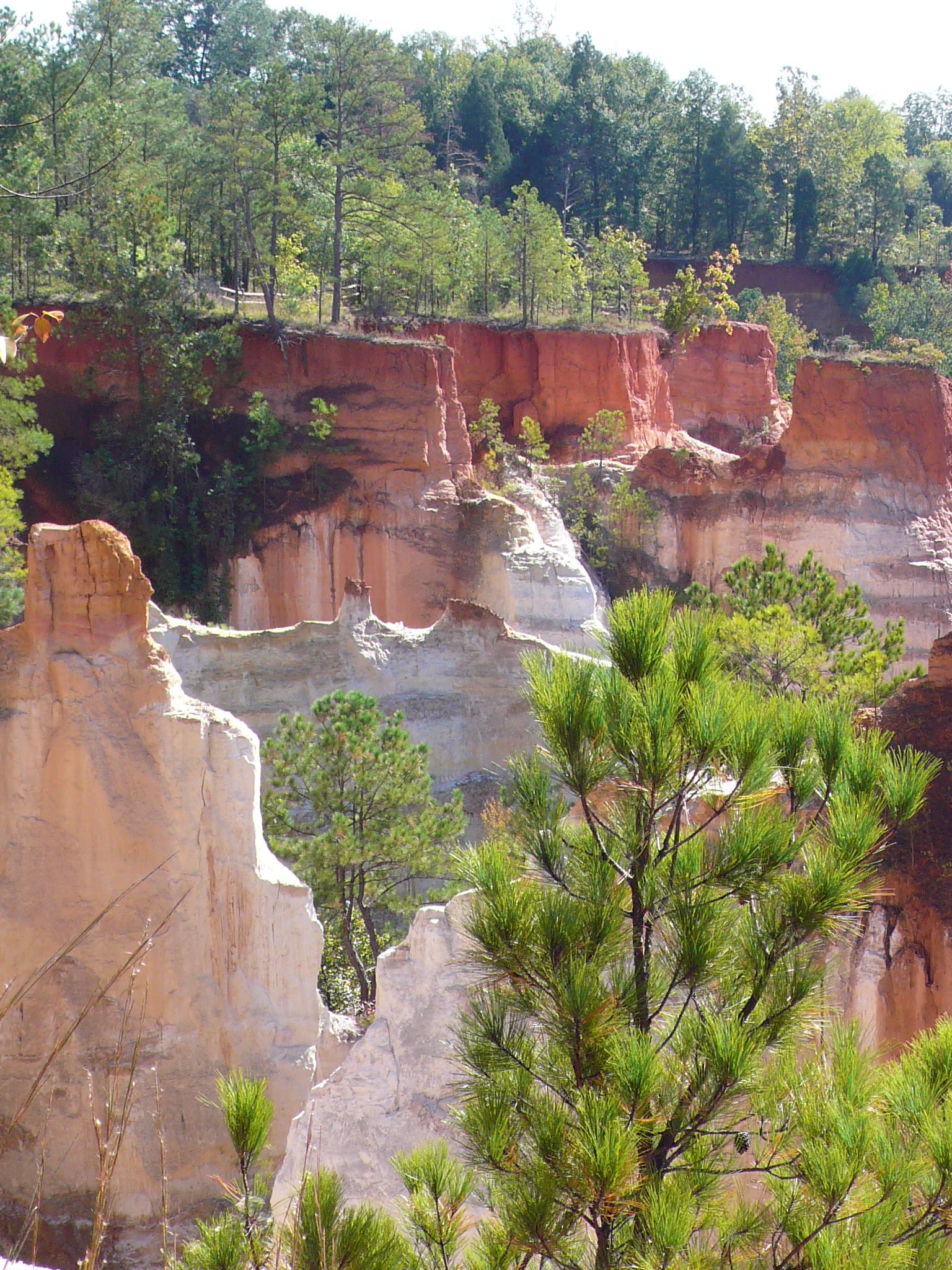 Providence Canyon State Park near Lumpkin, Georgia, USA. 32°4′13″N 84°54′47″W / 32.07028°N 84.91306°W